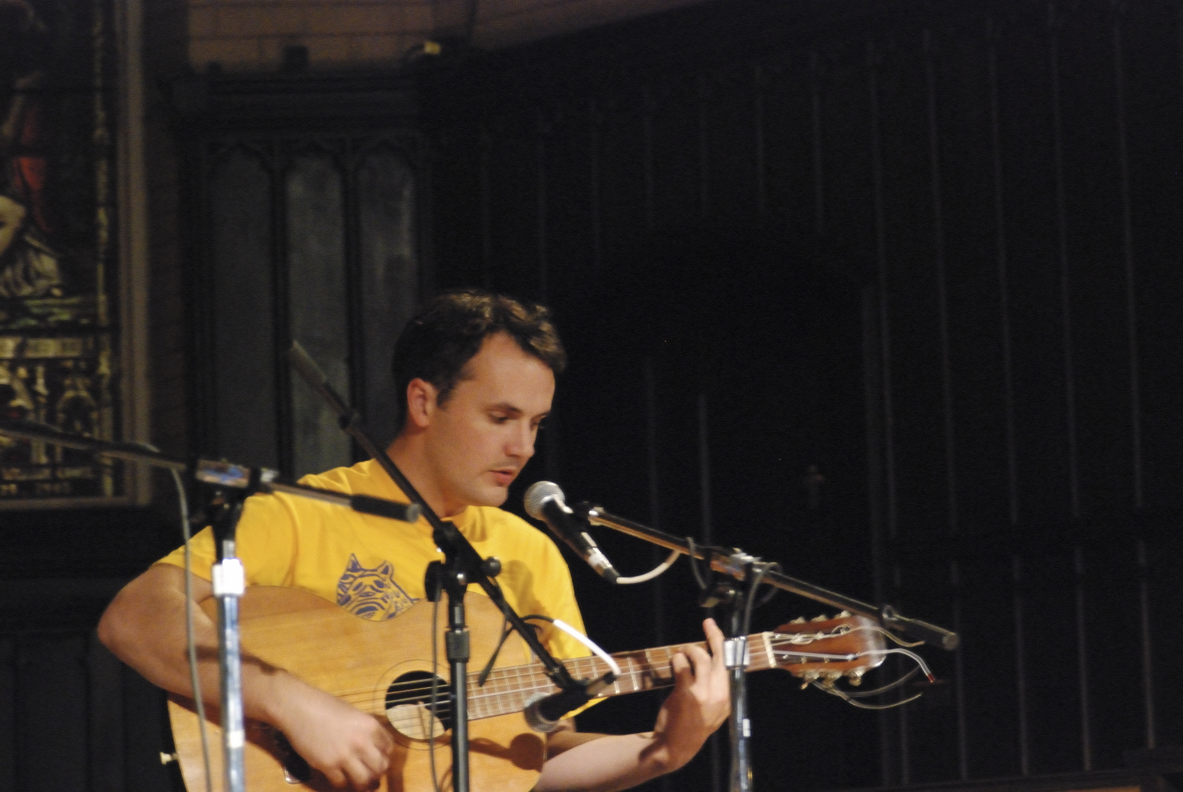 Musician Phil Elverum playing a show in 2008